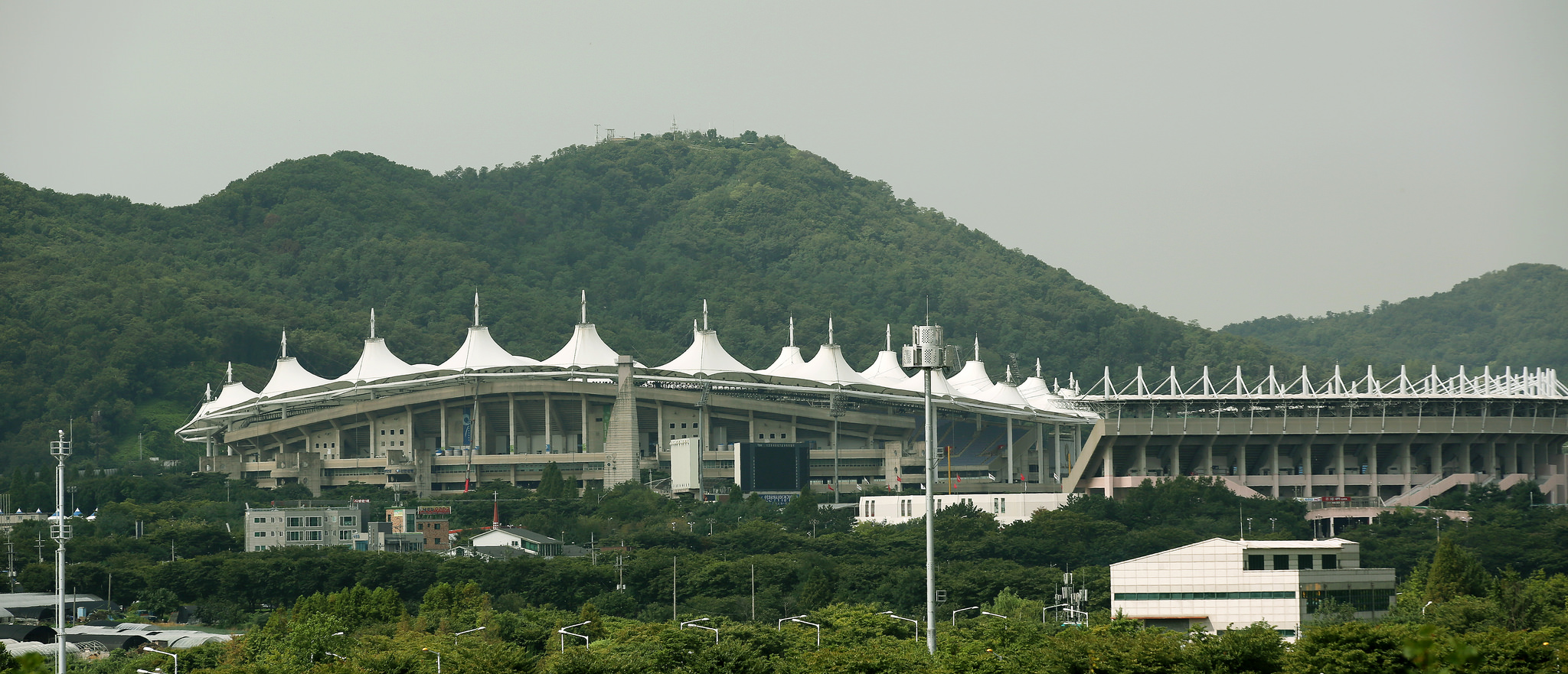 Incheon Asiad Park